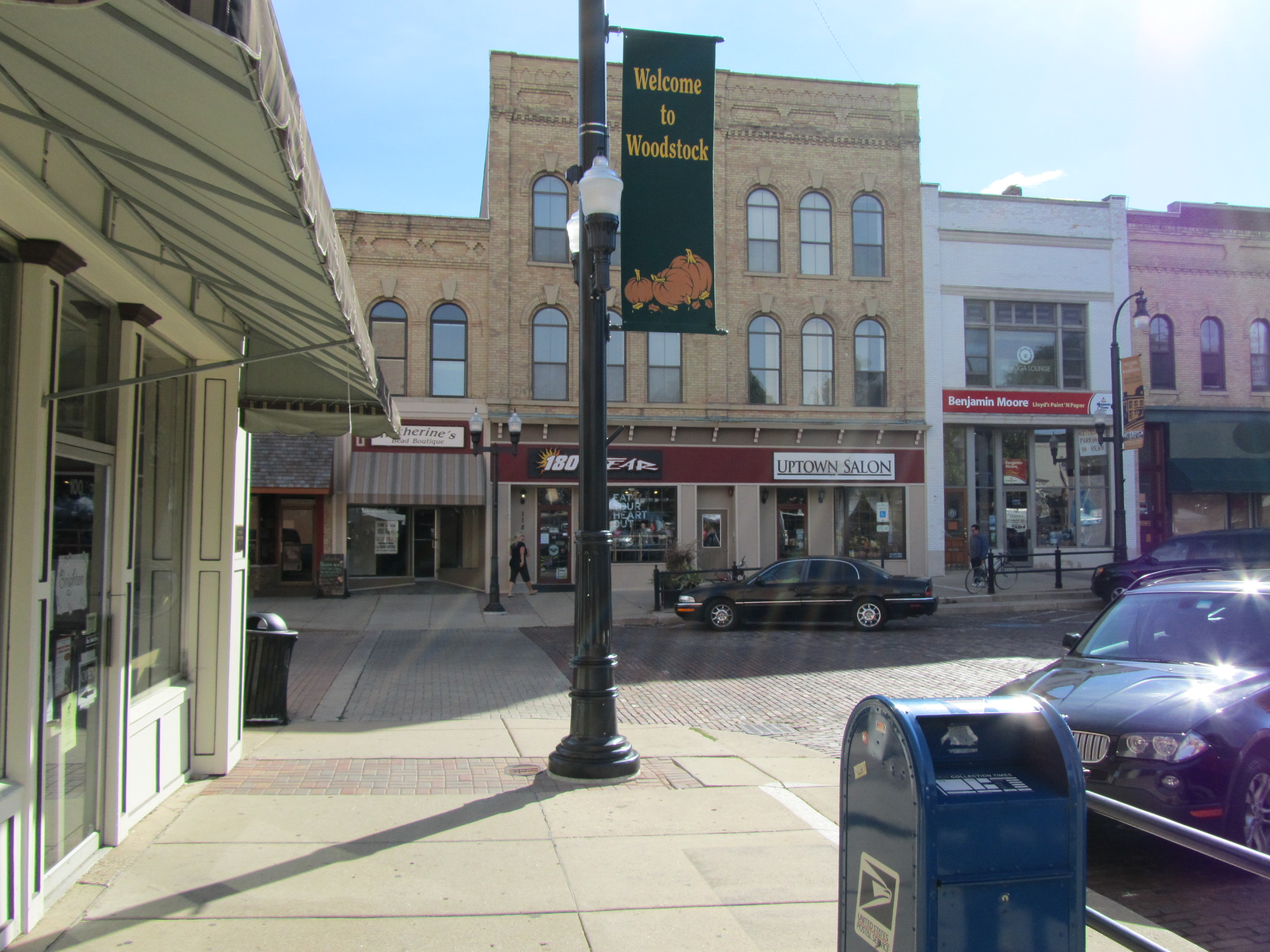 Ned's Corner in Movie Groundhog day at Woodstock, IL